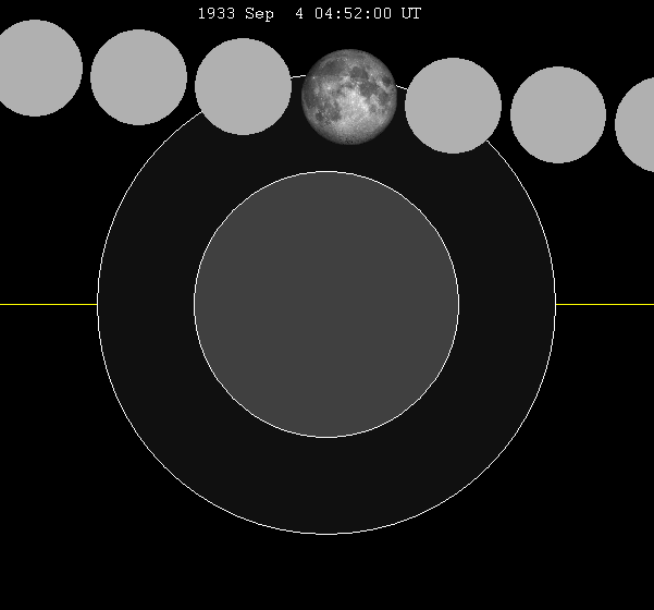 =lunar eclipse chart of moon's path through the earth's shadow. thumb